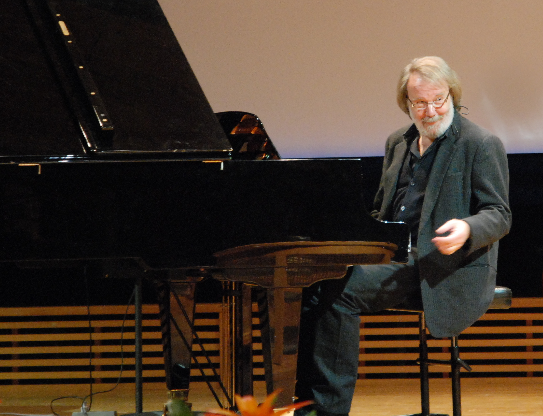 Benny Andersson is talking about his music and his compositions at the Aula Magna at Stockholm University where he is honorary doctor since September 26, 2008